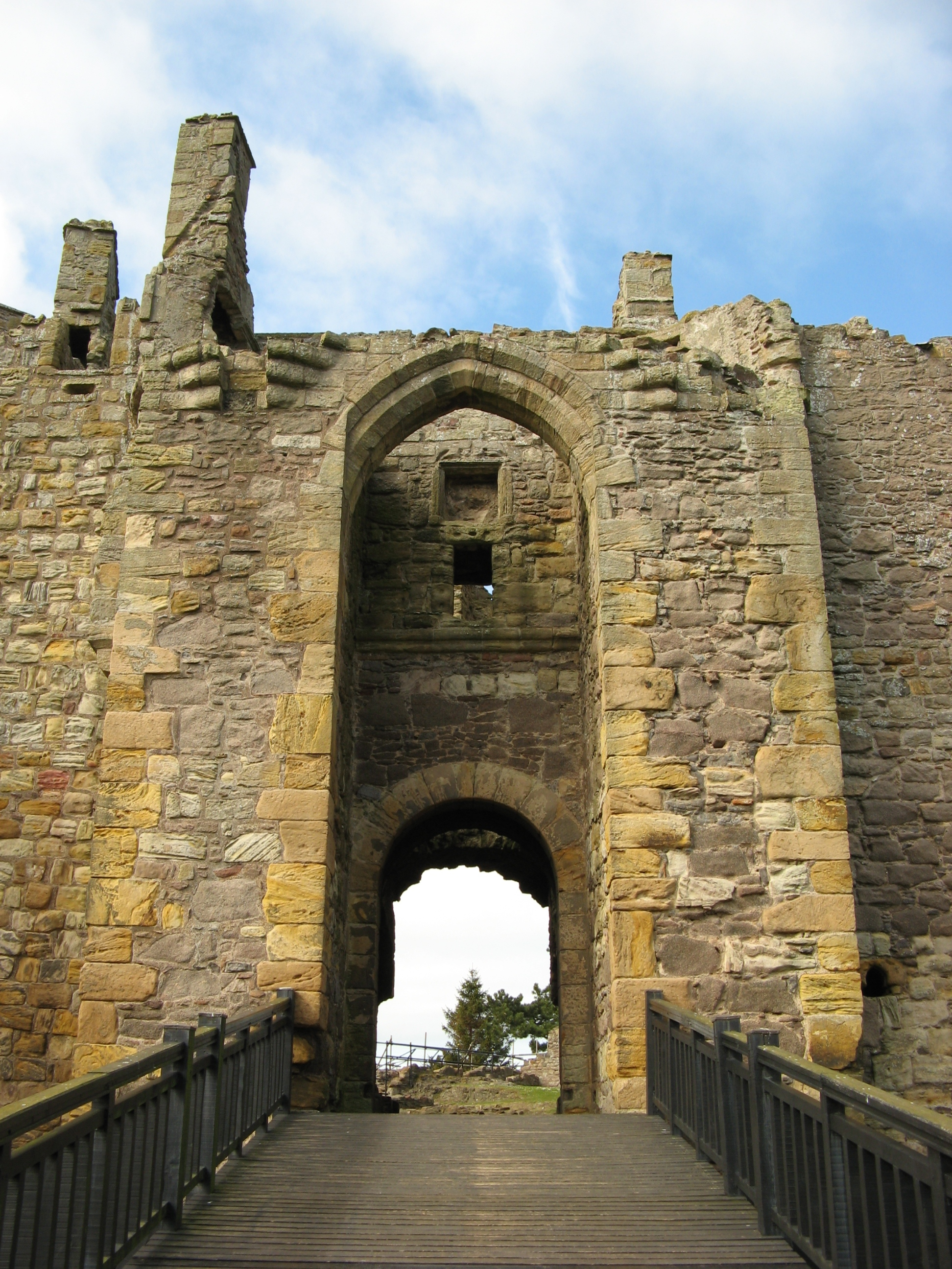 Dirleton Castle, East Lothian, Scotland. Main gate in the south wall.